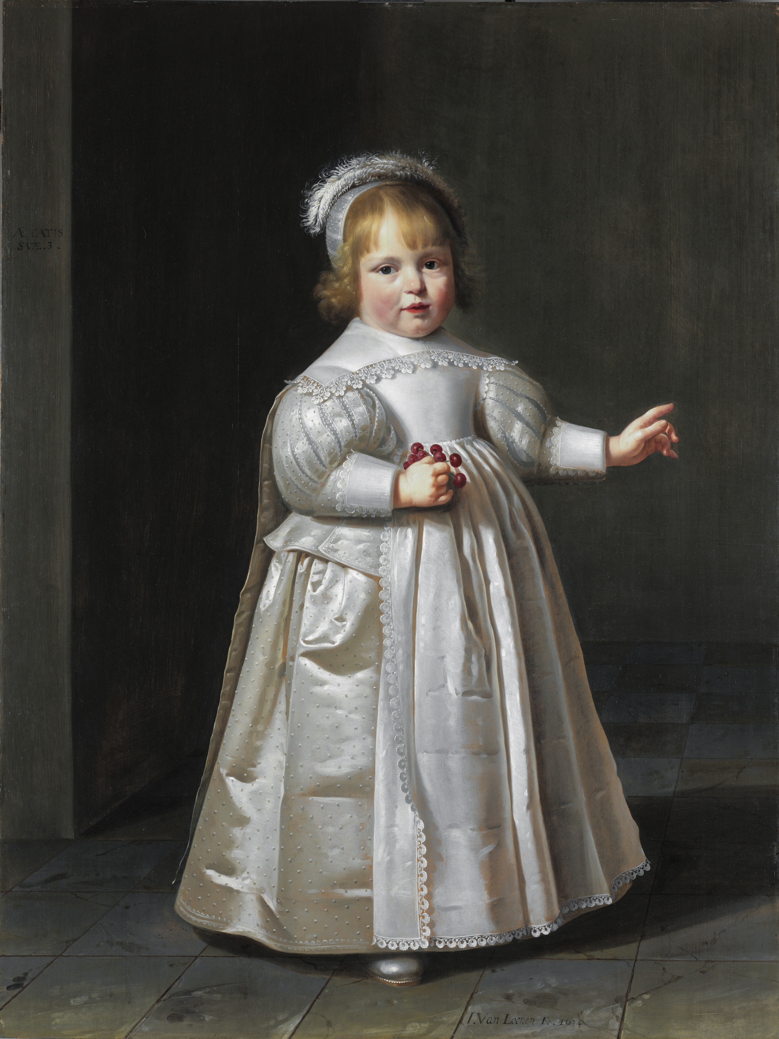 Portrait of a boy, probably Willem van der Muelen (1631-1690) oil on canvas 113,6 x 85,7 cm signed b.l.: I. van Loenen Fe. 1634 inscribed t.l.: AETATIS SVAE 3